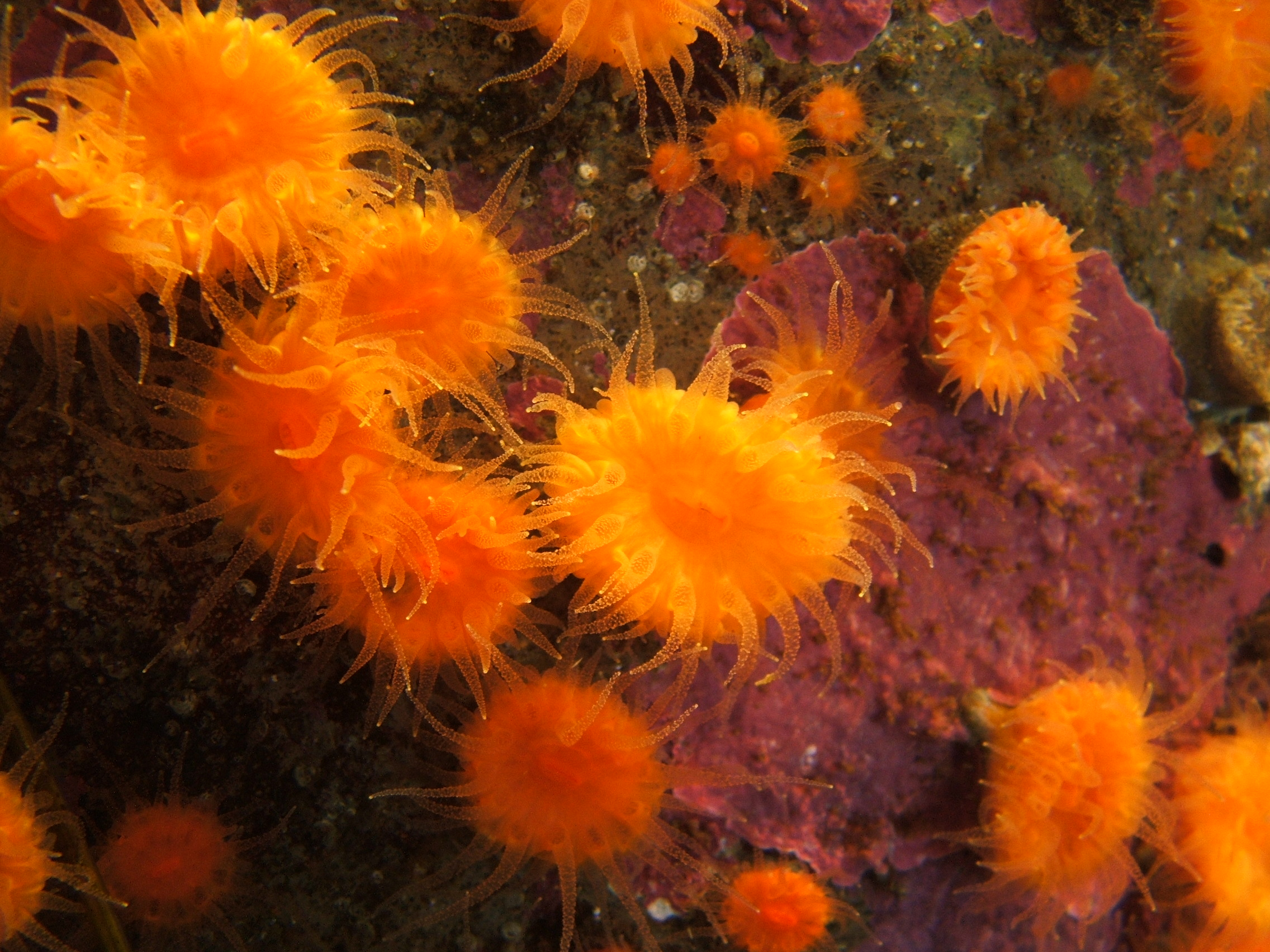 Monterey Bay Aquarium